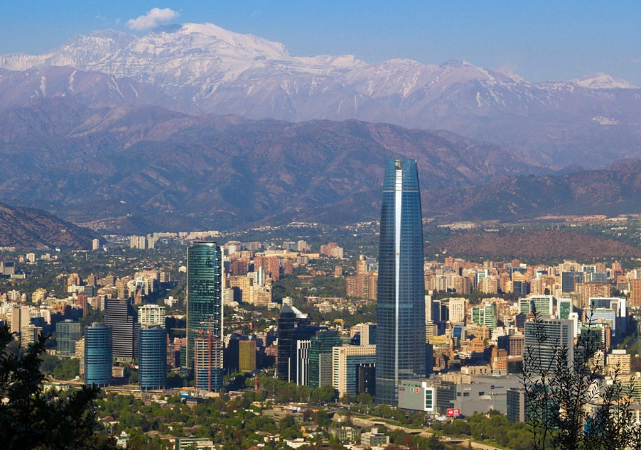 Santiago landscape